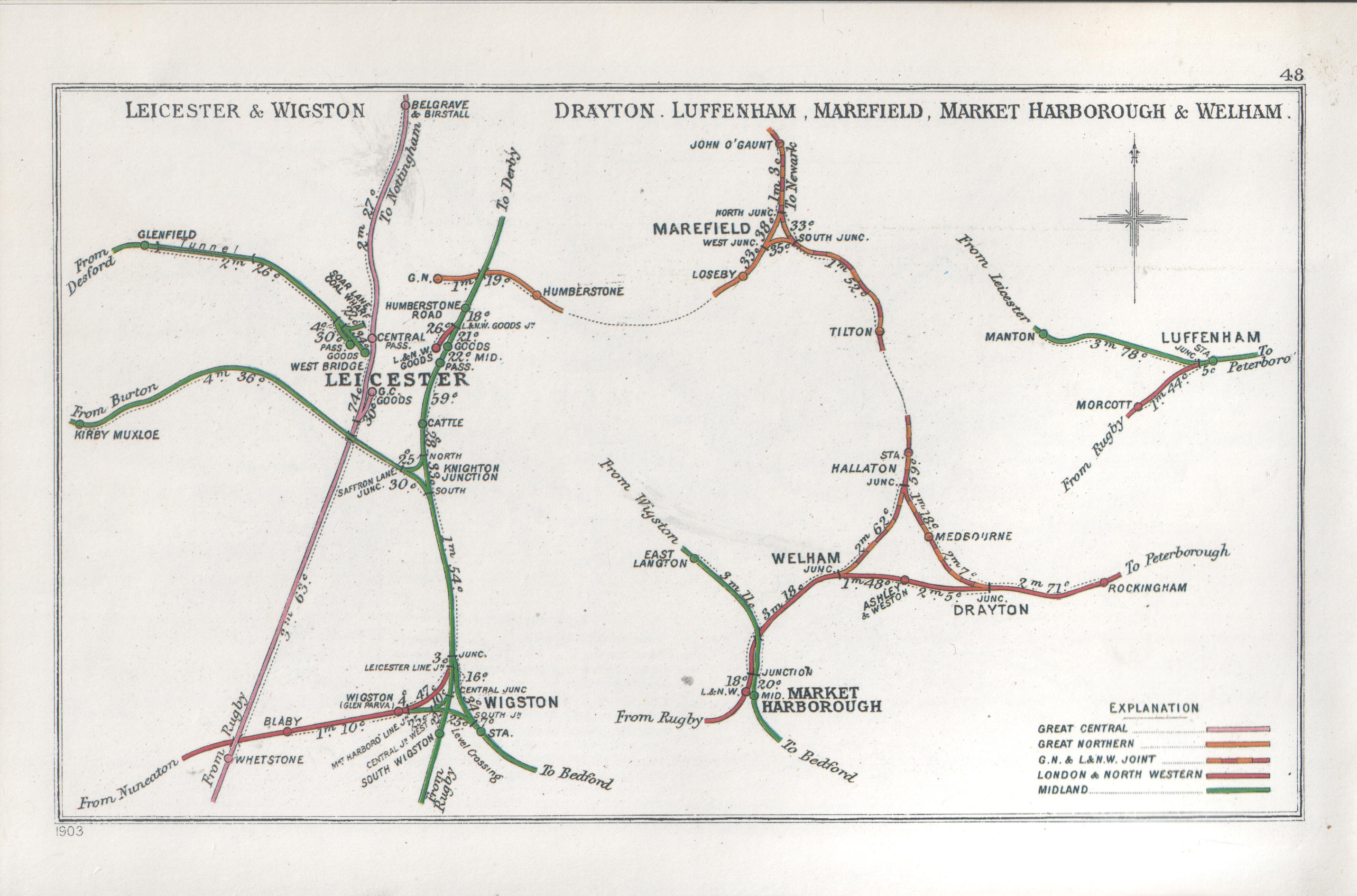 Pre Grouping railway junction around Leicester & Wigston; Drayton, Luffenham, Marefield, Market Harborough & Welham